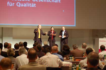 Example of Corporate Theater at the annual public conference of Deutsche Gesellschaft für Qualität. Three actors (*) perfoming a feedback of expectations at the beginning of the conference.*=Thanks to Rahel Comtesse, Jochaim Völpel und Roger Wüthrich von THEATER-INTERAKTIV